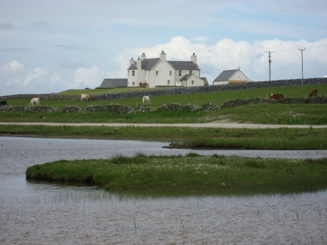 House by Ardnave Loch